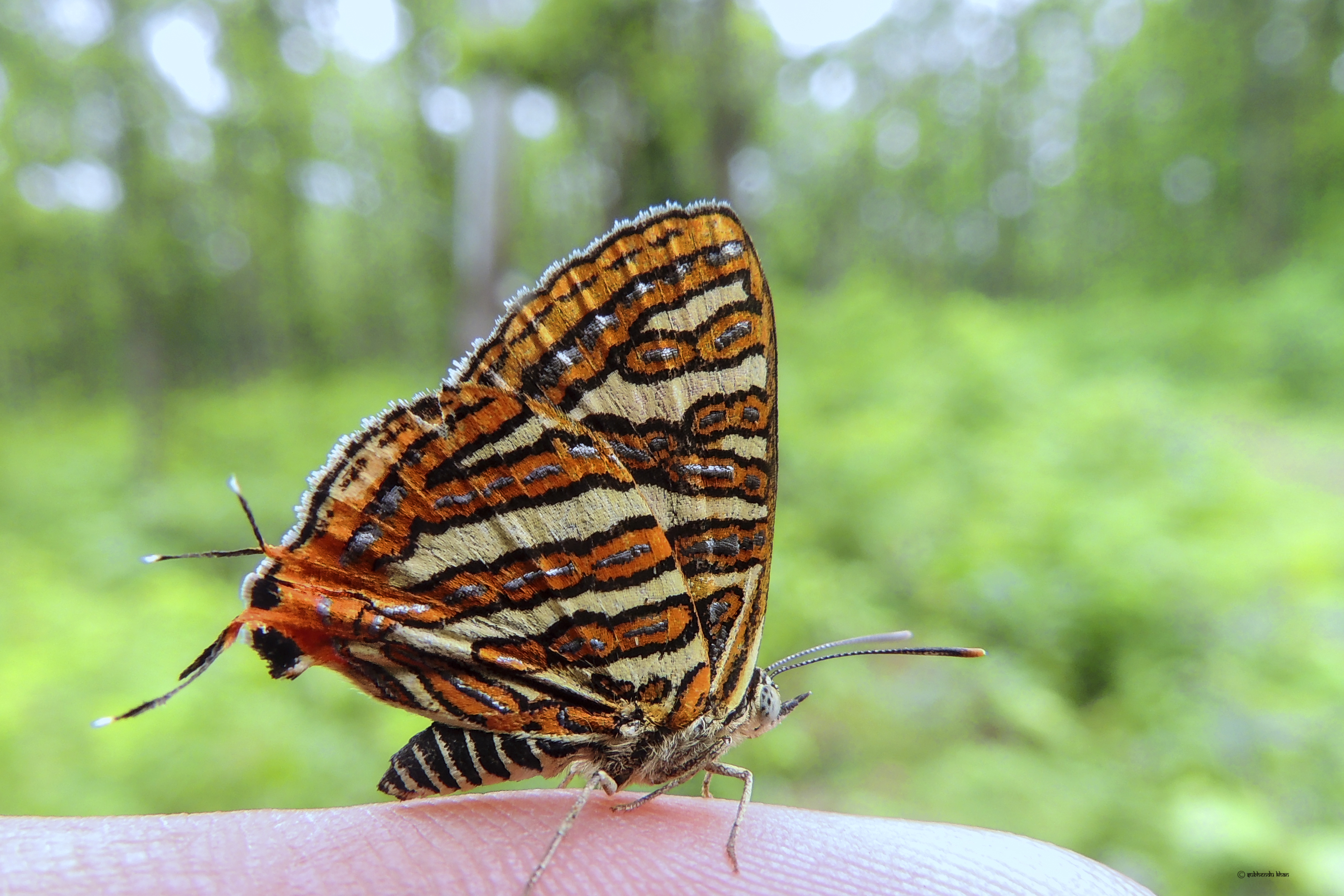 Close wing position of Spindasis vulcanus (Fabricius, 1775) – Common Silverline . A butterfly with two 'heads', taken in 2017 for Wiki Loves Butterfly. Subspecies: Spindasis vulcanus vulcanus (Fabricius, 1775) – Indian Common Silverline